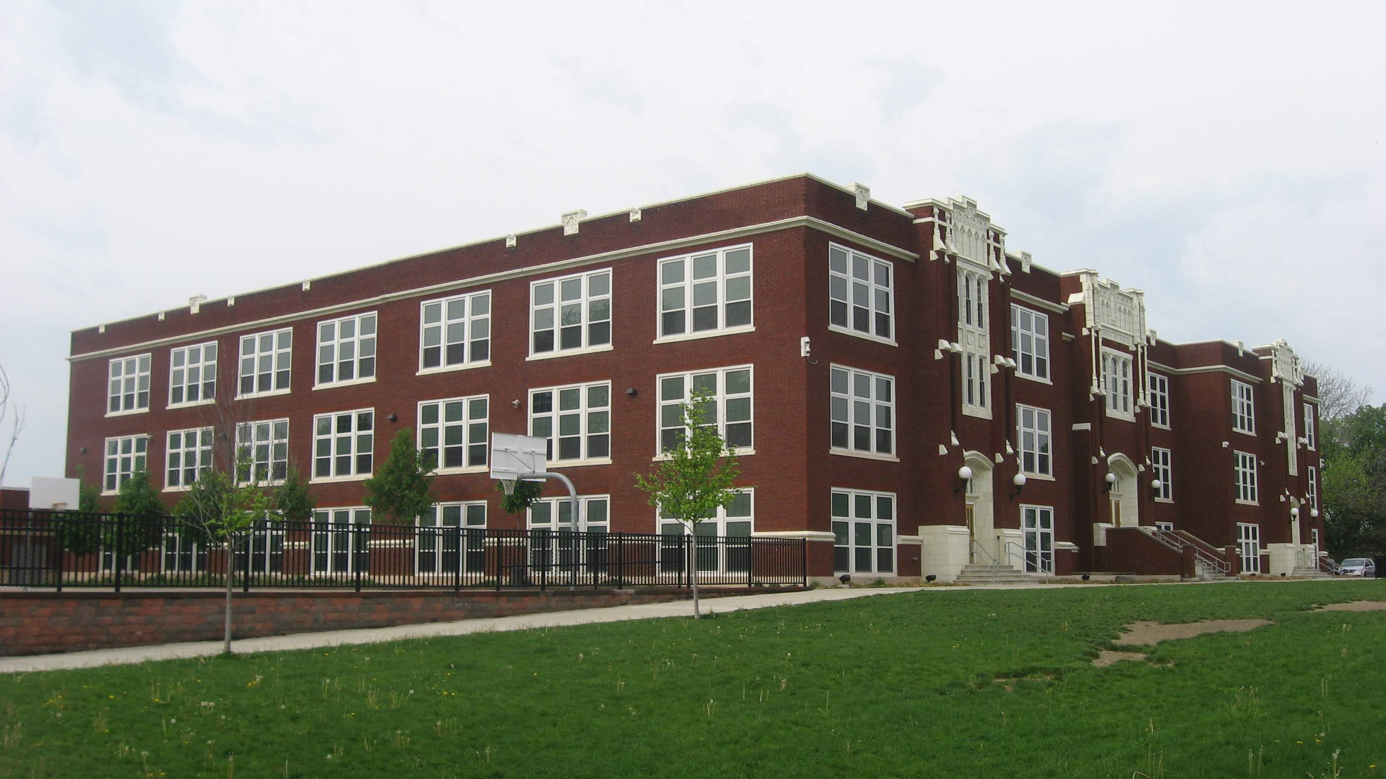 Front and eastern side of the Bucyrus Elementary School, located at 245 Woodlawn Avenue in Bucyrus, Ohio, United States.